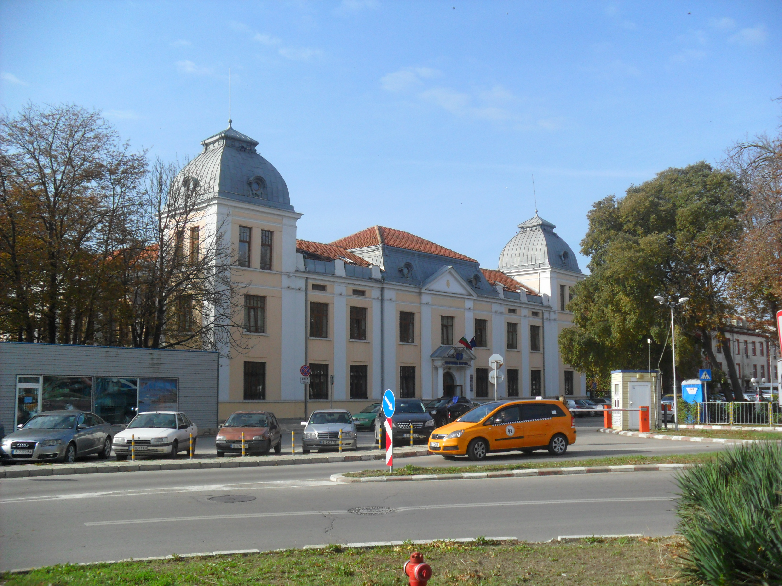 Customs in Varna